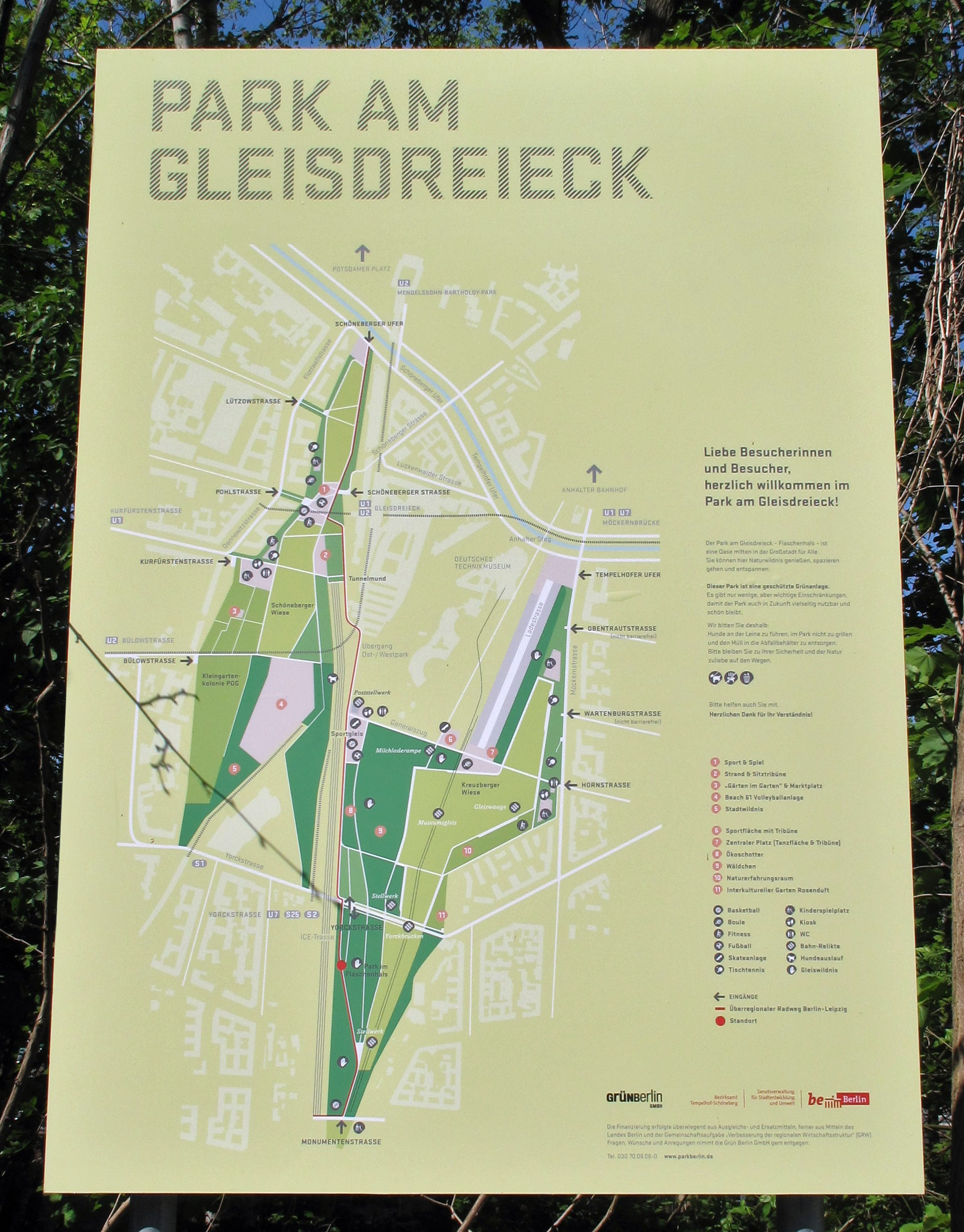 Information board/map Park am Gleisdreieck. The Park am Gleisdreieck is a public park in Berlin-Kreuzberg and Berlin-Schöneberg in Germany. The about 31,5 hectare park is situated on the area of the former Gleisdreieck and was built on the wasteland of the Anhalter goods station and Potsdamer goods station. The route of the Berlin North–South mainline divides the green space into the Ostpark and the Westpark. The Ostpark was opened on September 2, 2011, the Westpark on May 31, 2013. On March 21, 2014, there was opened a third part, the Flaschenhals or Flaschenhalspark.